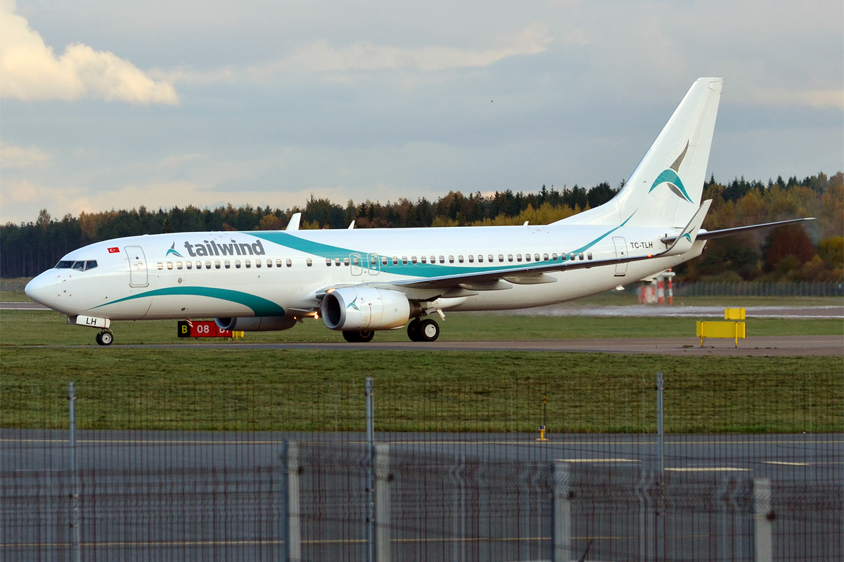 Tailwind Airlines, TC-TLH, Boeing 737-8K5